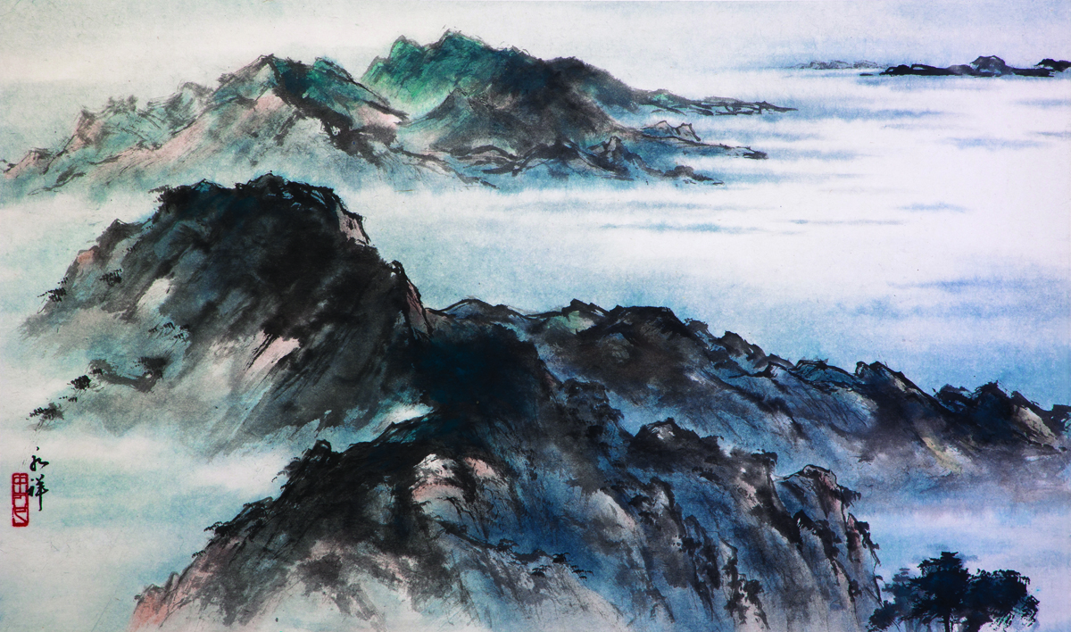 Art paint